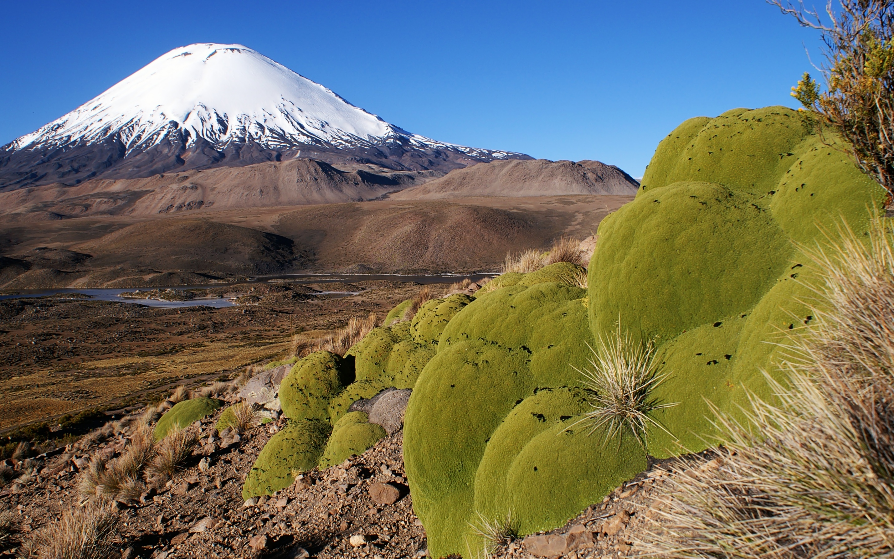 The extremely compact growth of Azorella compacta (llareta) in the right foreground reduces the loss of heat and water. It allows the plants to survive the harsh conditions prevailing in the puna environments of northern Chile, at an elevation of 4500 m. The dormant, glaciated Volcán Parinacota (6348 m) appears in the left background. Even though the last eruption of this stratovolcano occurred at least 1400 years ago, the llaretas shown in the picture might have witnessed this event: these plants grow slowly and possibly reach ages above 3000 years. Credit: Martin Mergili (distributed via ).